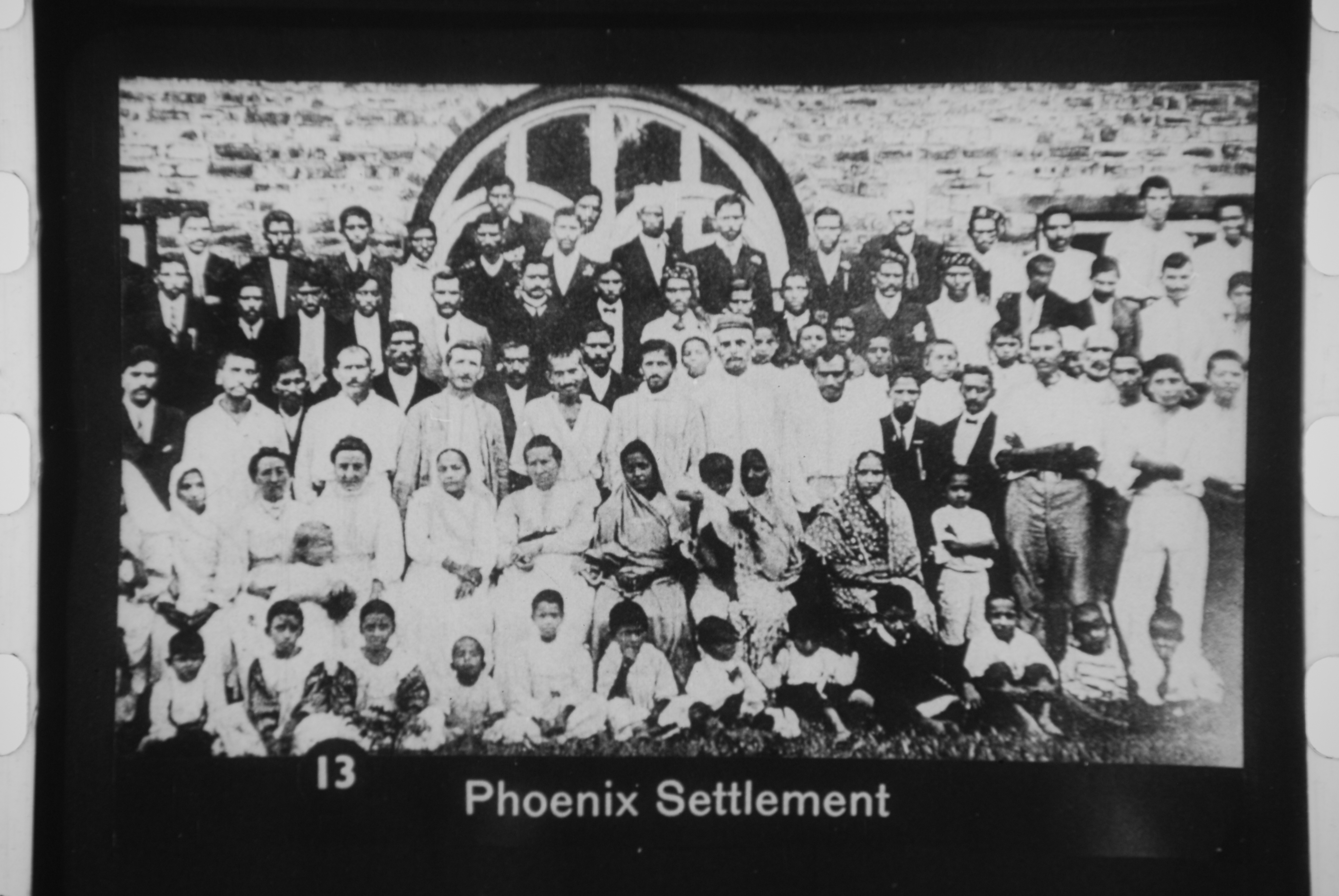 Phoenix settlement, Natal, South Africa.